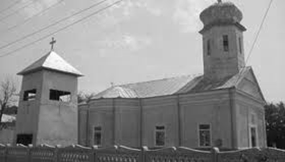 Bordei Verde church, Brăila County, Romania, in the years 1980–1990, before the renovation of 2012. The building was built in 1881.